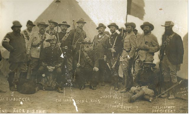 Photo of General Kock, his staff, and members of the German Corps on the eve of the Battle of Elandslaagte, 1899